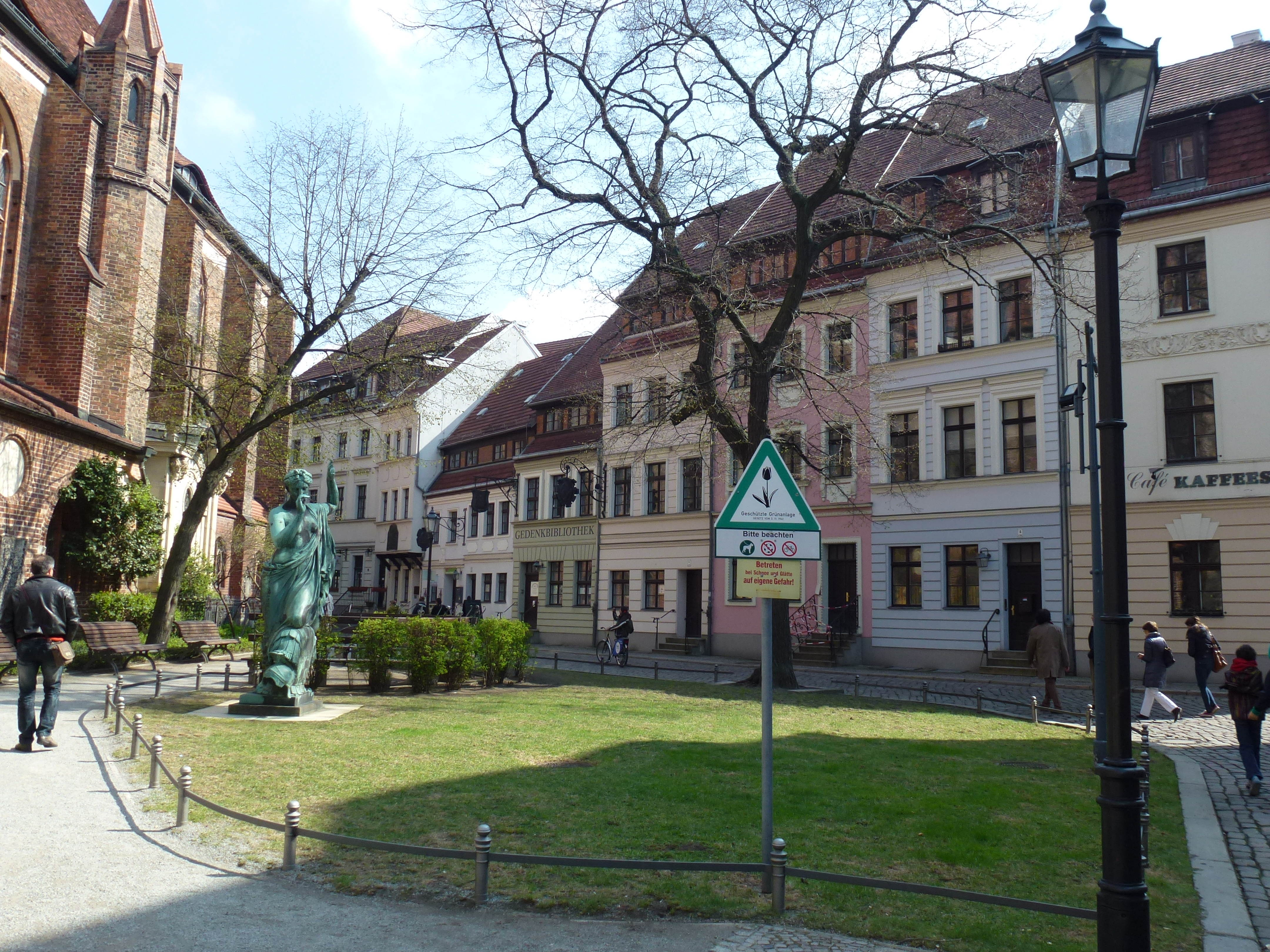 Berlin-Mitte Nikolaikirchplatz